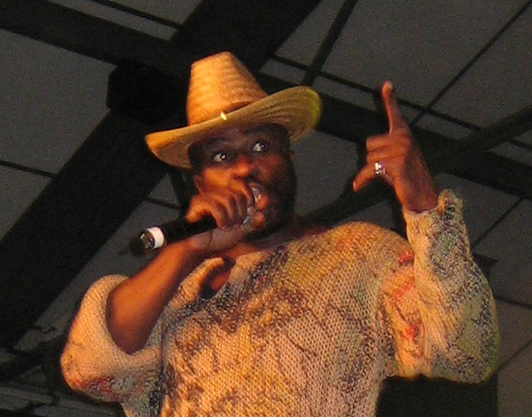 Reggae artist Eek-A-Mouse performing at Swea reggae festival 2006, Stockholm